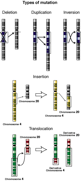 Description: Different types of mutation Source: [1] (file) License: "All of the illustrations in the Talking Glossary of Genetics are freely available and may be used without special permission." [2]